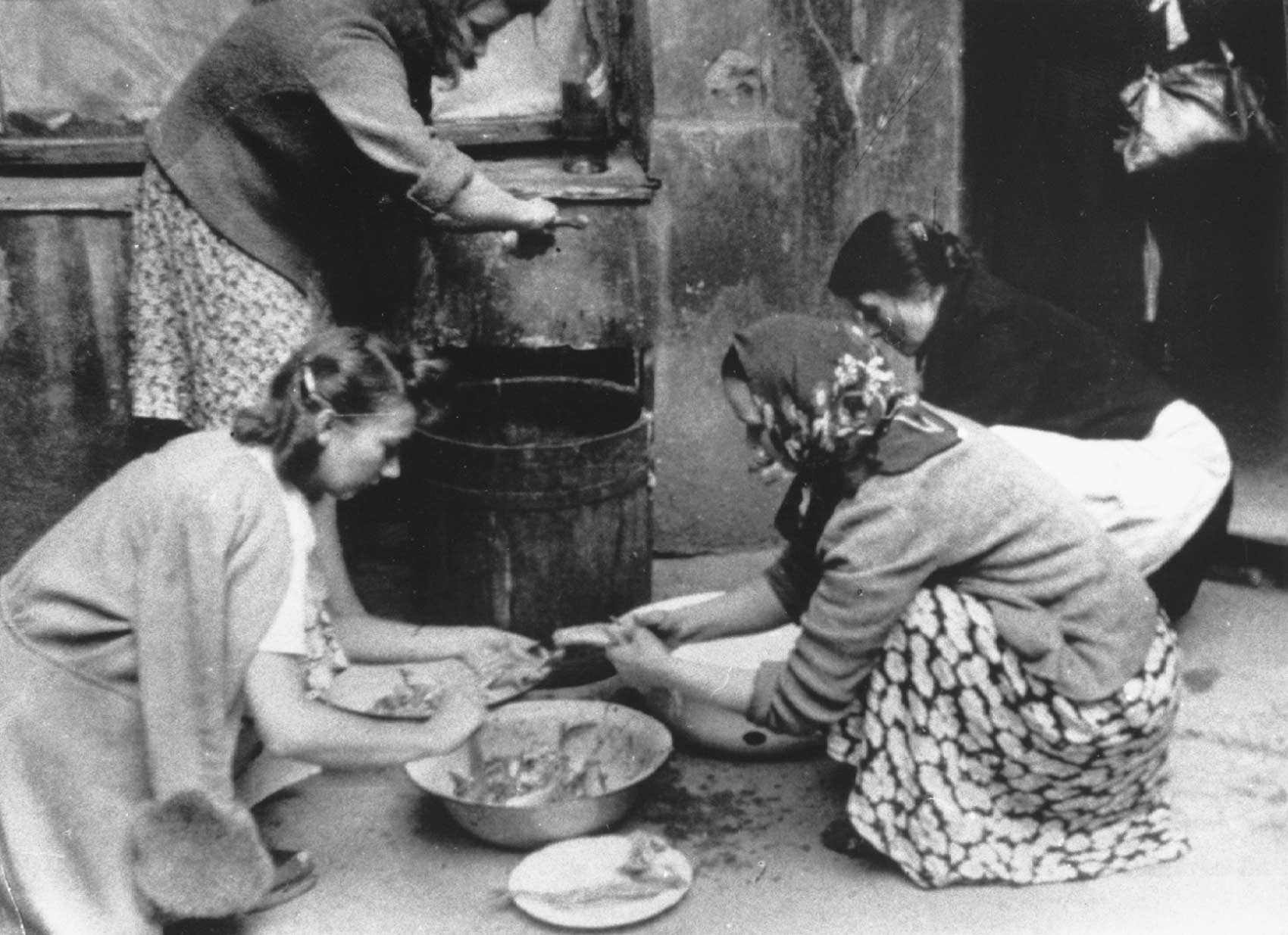 Warsaw Uprising: Field kitchen of Help to Soldier (in polish Pomoc Żołnierzowi, PŻ or "Peżetki") organization commanded by Hanna Łukaszewicz „Ludwika”.